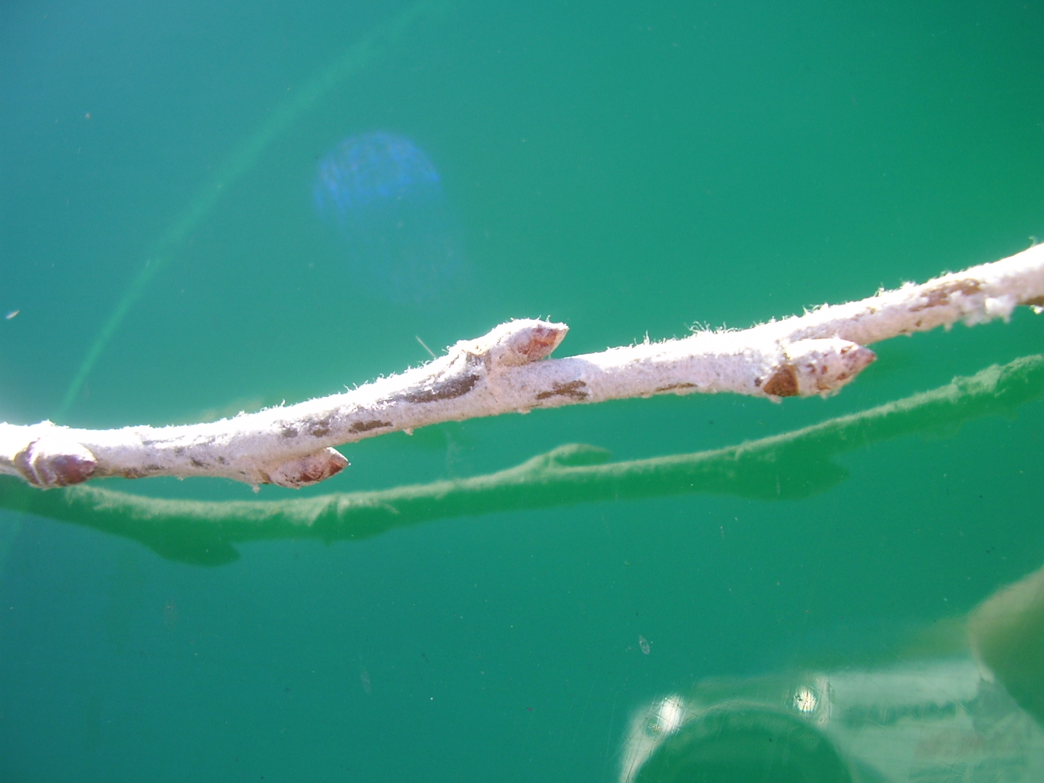 Populus alba own work Rob Hille